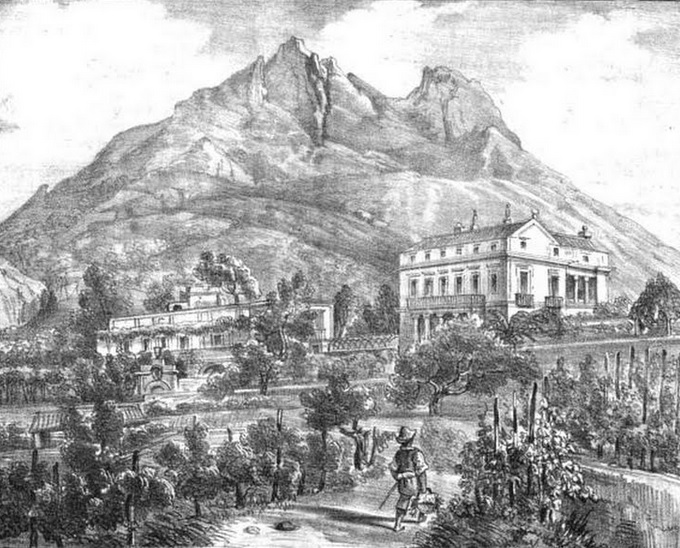 Villa Sauvé, Casamicciola, Ischia depicted in 1848. At that time it was a sanatorium established by the physician Jacques Etienne Chevalley de Rivaz